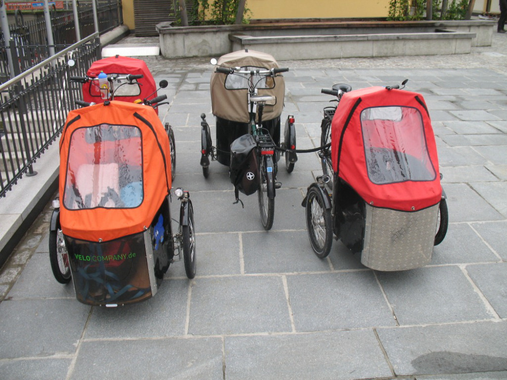 Freight bicycles